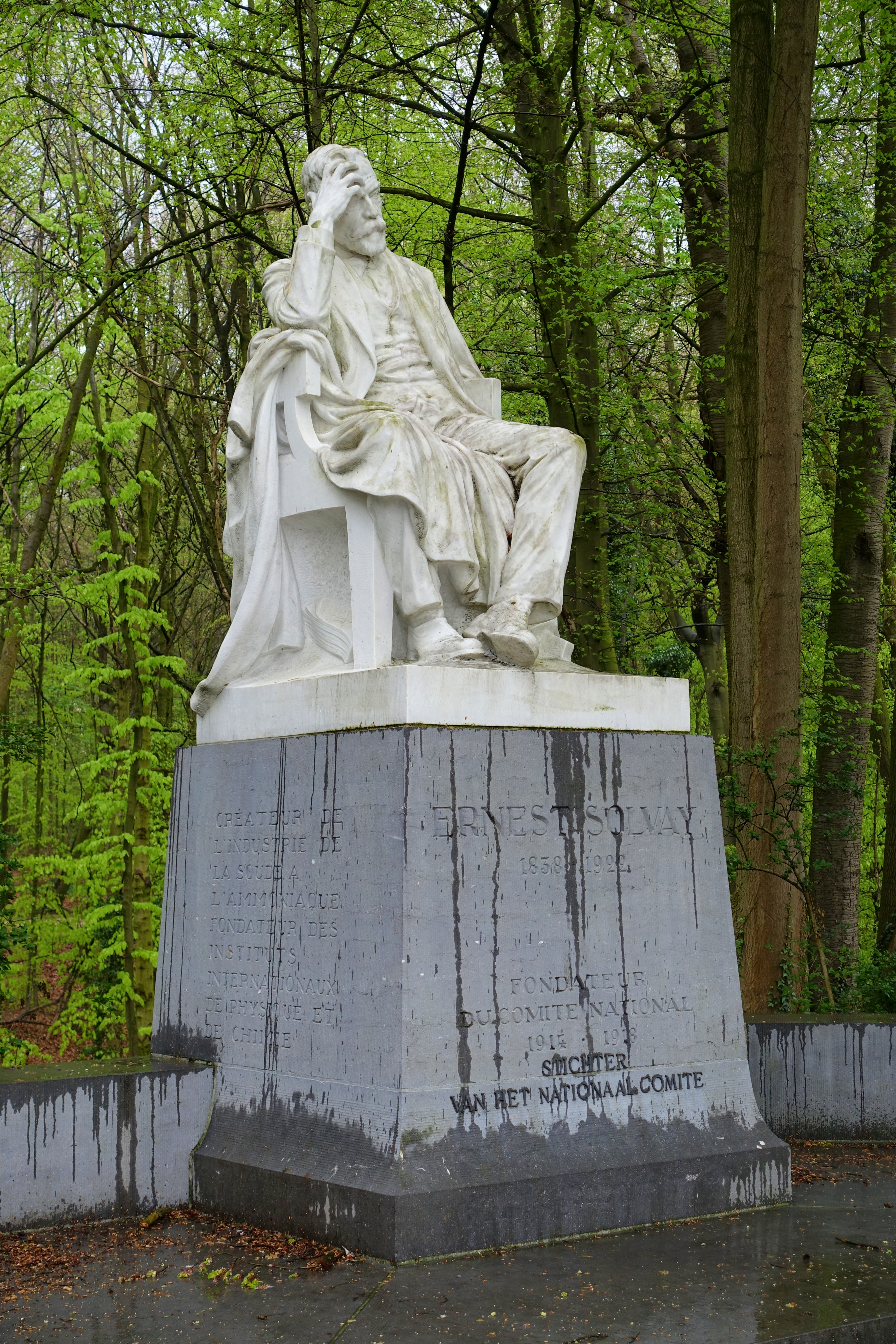 Ernest Solvay by Égide Rombaux - Brussels, Belgium. This work is in the public domain because the artist died more than 70 years ago.